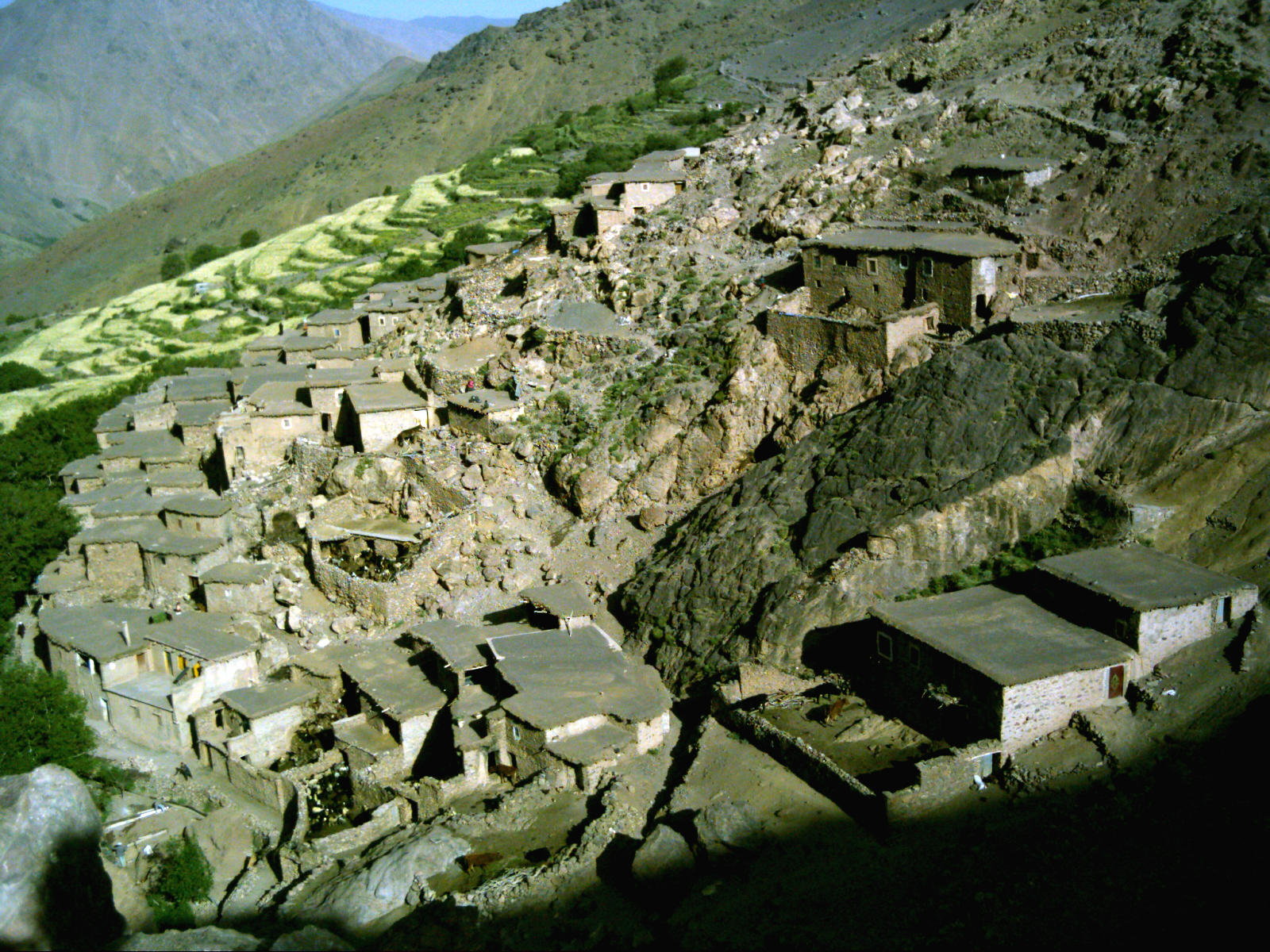 Taken by myself, Michael Smith in the summer of 2004. Early morning view of Tacheddirt facing West. (note: I've also provided this image to wikitravel).